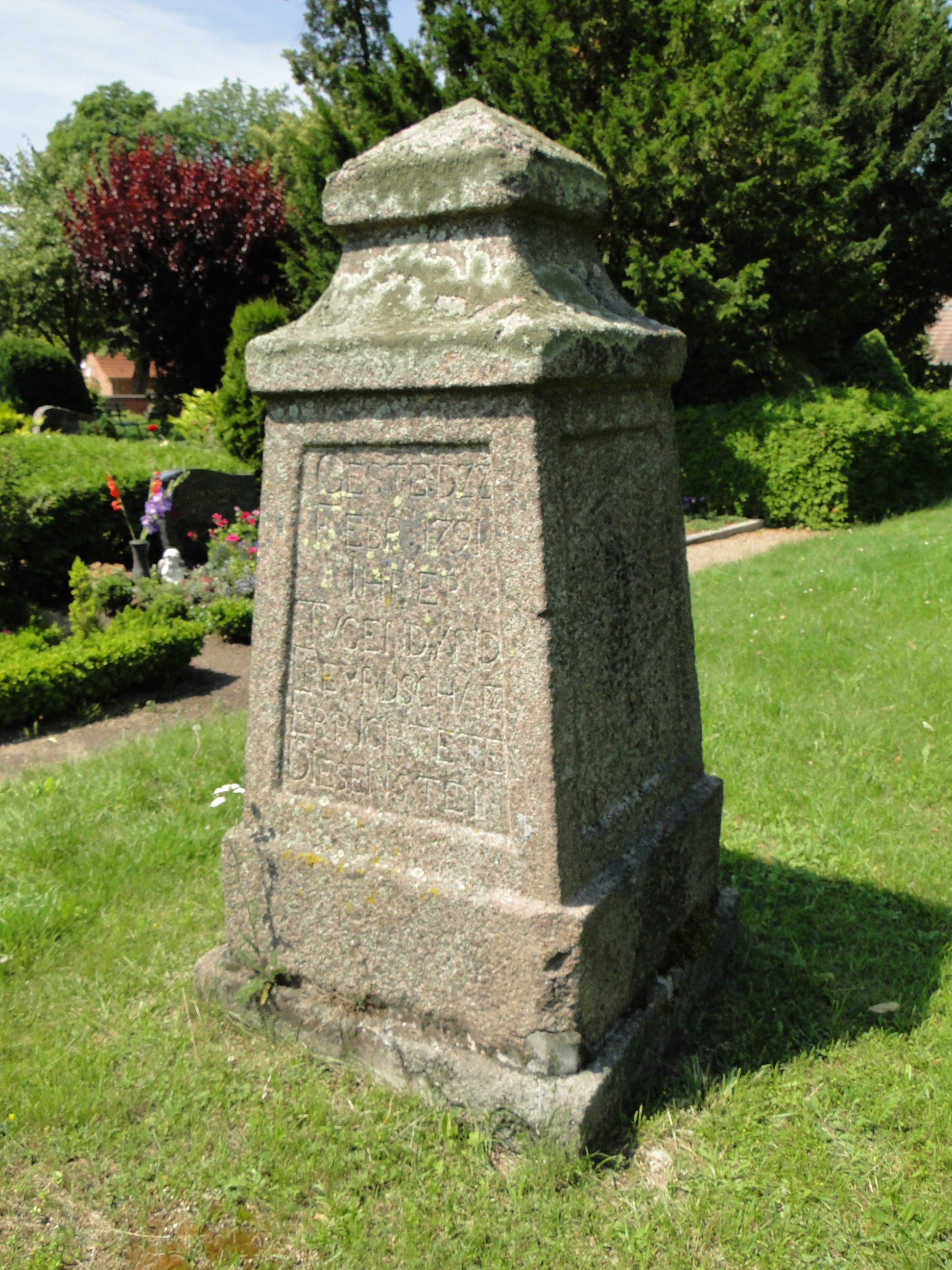 Gravestone of Johanna Agnesa von Gloeden on the cemetery of Monastery in Dobbertin, district Ludwigslust-Parchim, Mecklenburg-Vorpommern, Germany